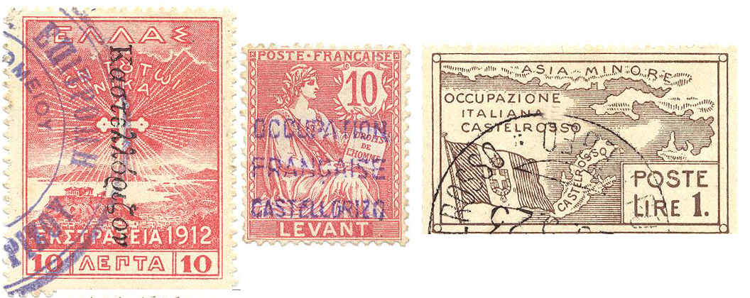 Several occupation stamps of Kastellorizo (now part of Greece)